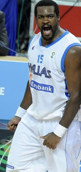 Sofoklis Schortsanitis